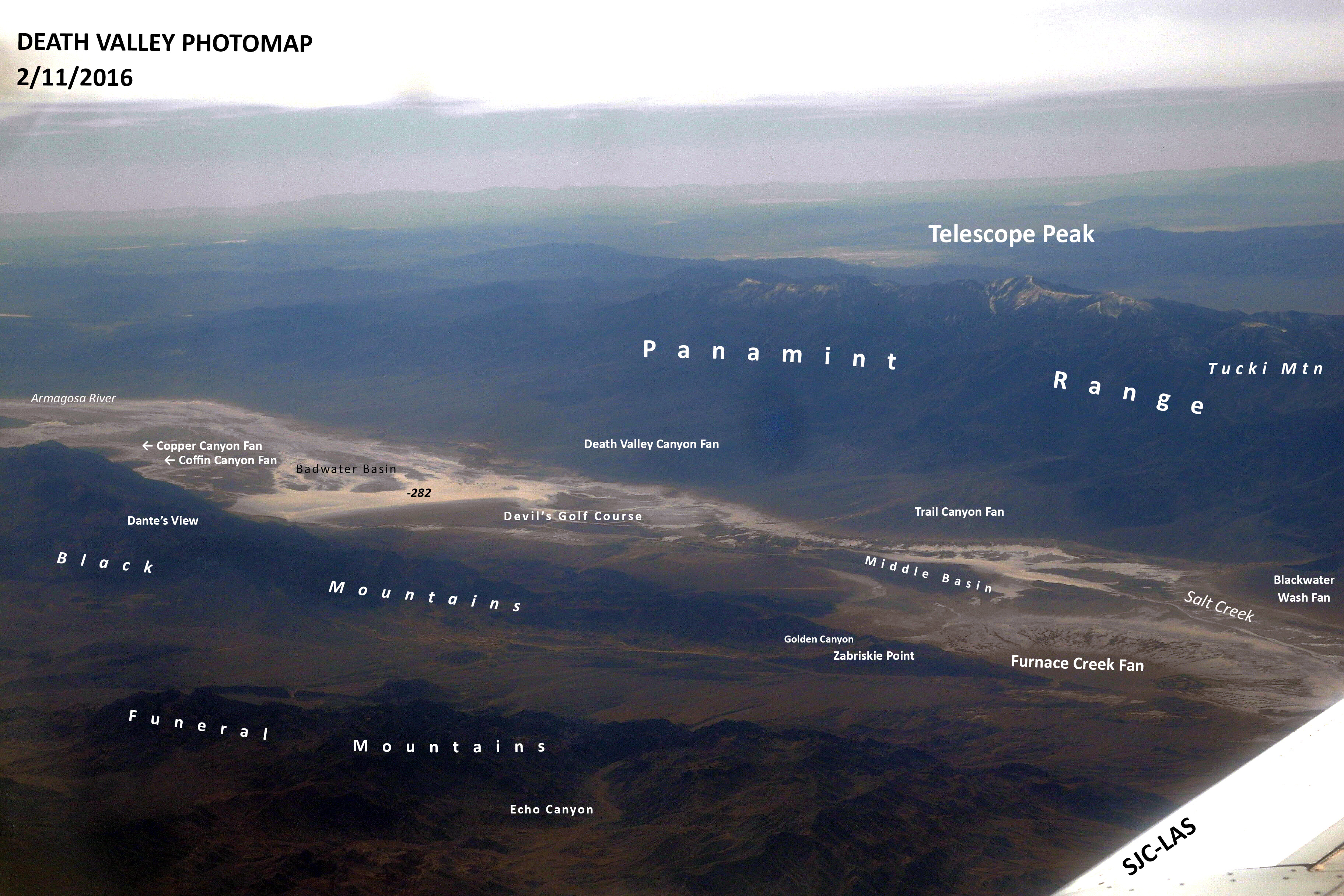 Death Valley photomap